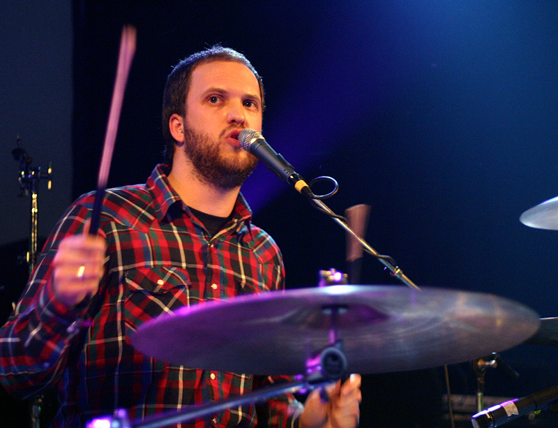 Photo of Minco Eggersman of at the close of every day, taken by Chingon at the You Make Music Festival held in Utrecht, The Netherlands at 15 January 2006.